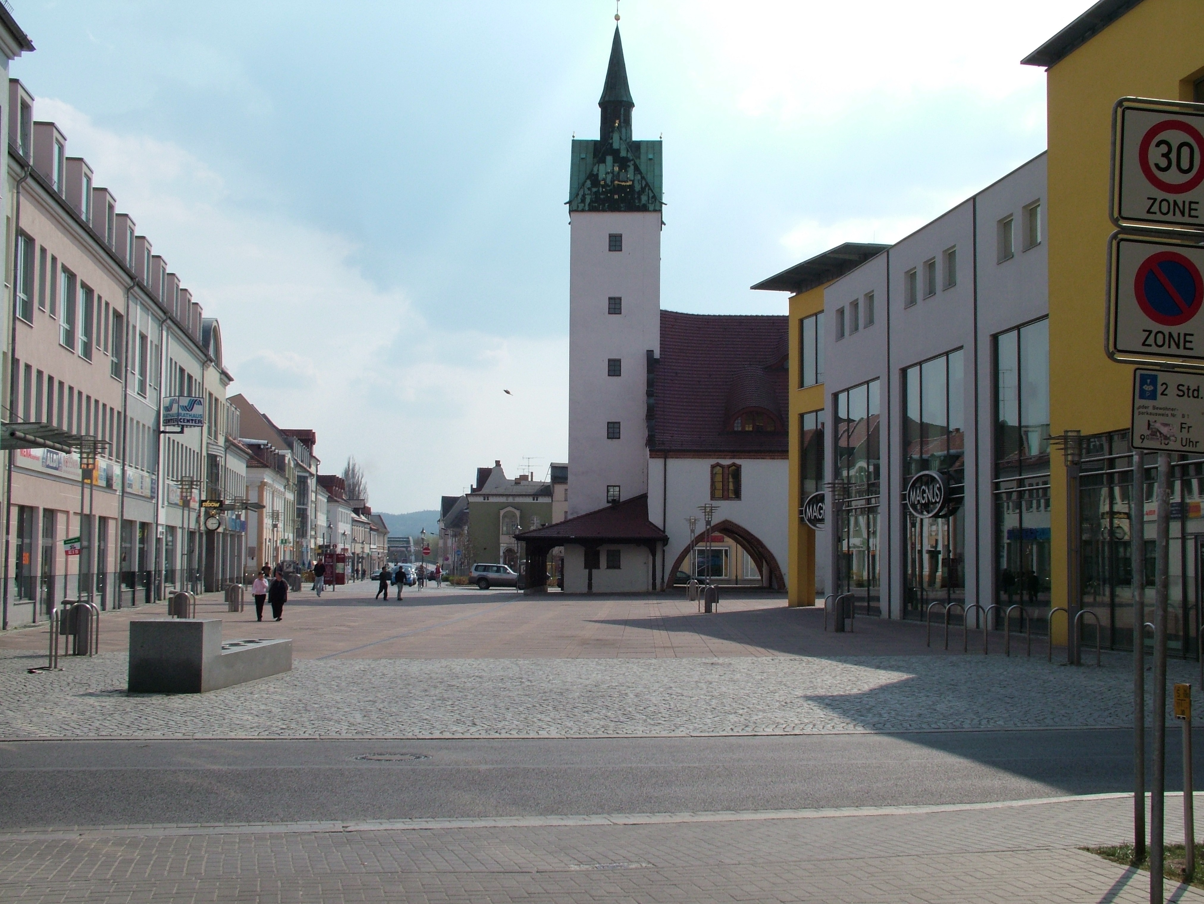 The car-free zone in front of the town hall of Fürstenwalde/Spree, Brandenburg, Germany.